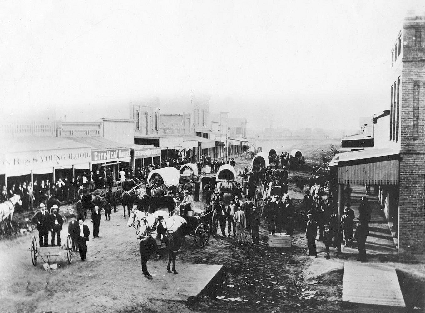 Street scene in Midland, Texas.